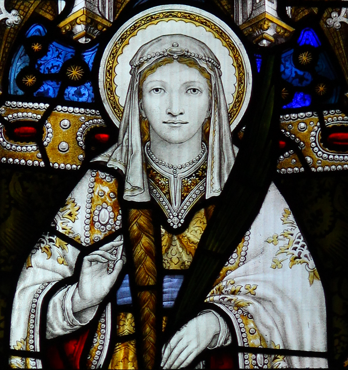 Photograph taken in Llandaf Cathedral, Cardiff, South Wales. St Tudful.